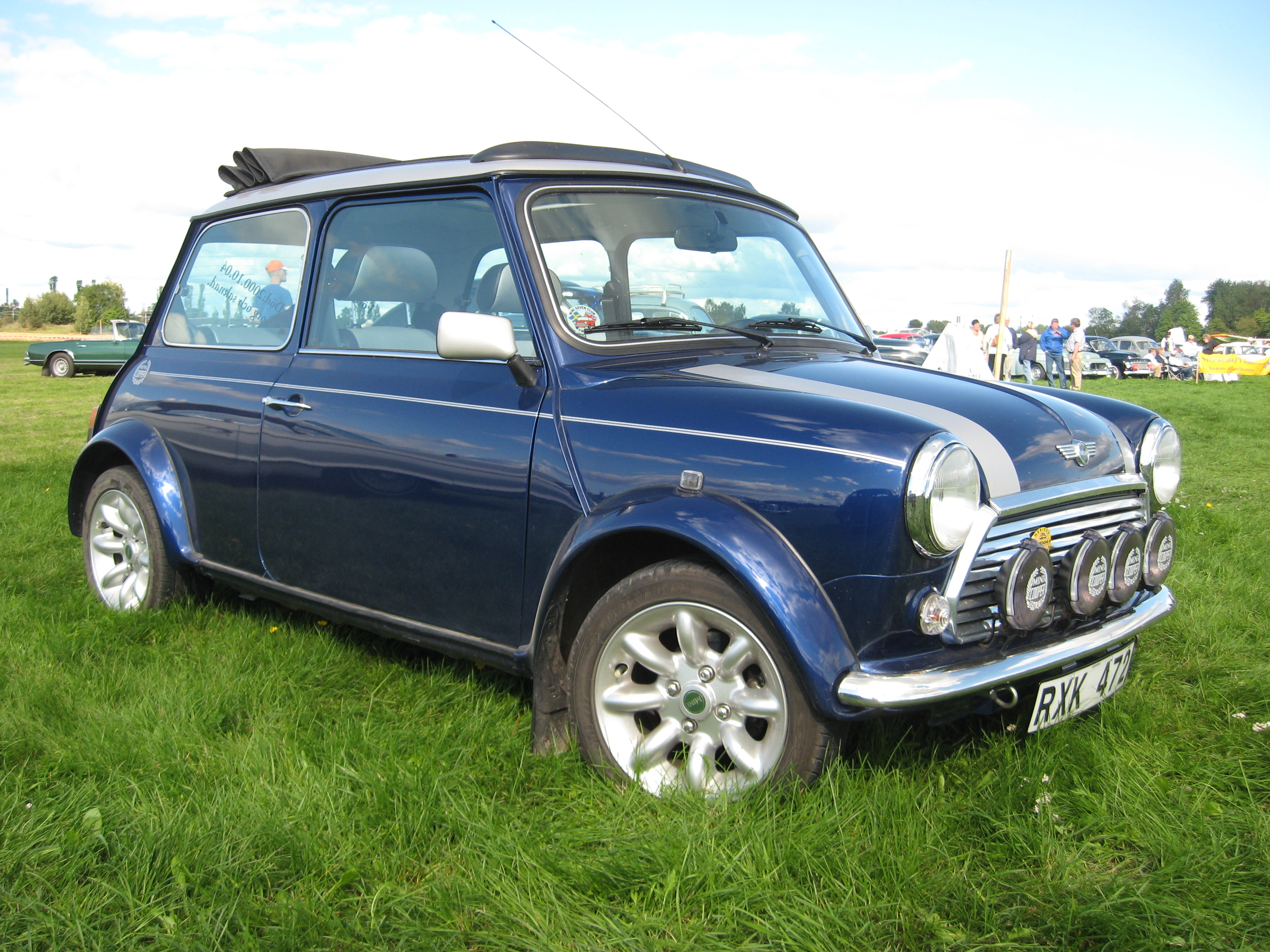 2000 Mini Cooper S Last Edition